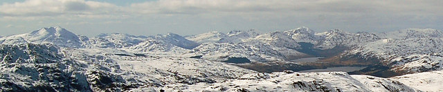 Ben Lomond from Ben Ledi. Ben Lomond on the left